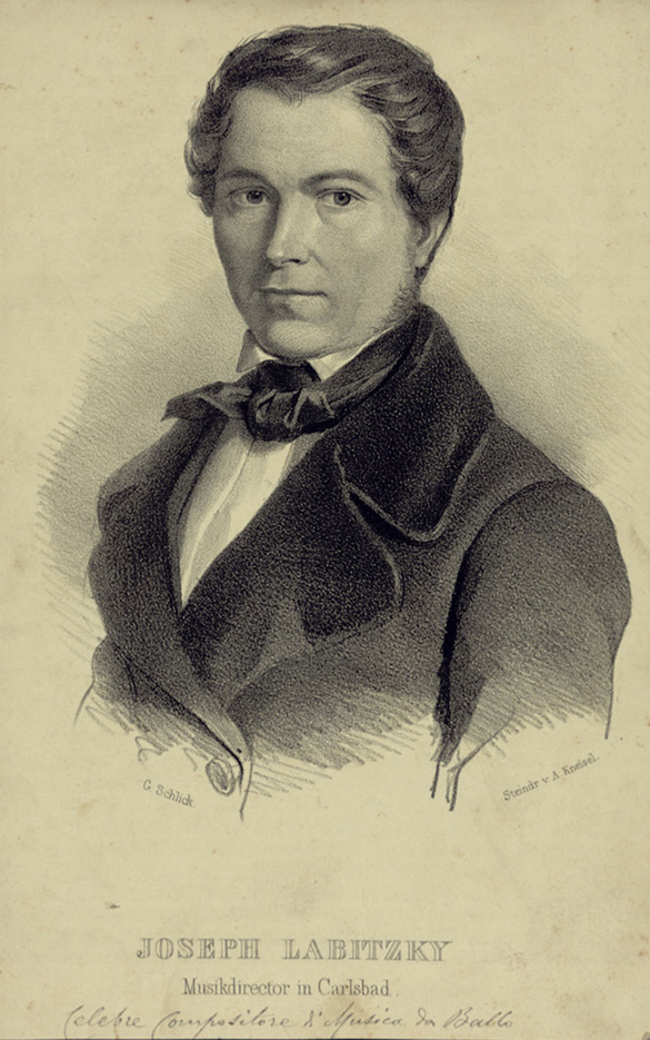 Portrait of Joseph Labitzky, composer (1802-1881), 1840.